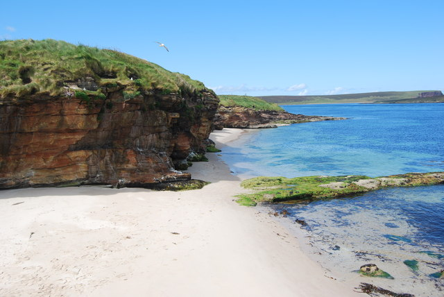 Sea caves on Eday, opposite the Calf of Eday Lovely little beaches and caves and absolute sun traps, but not always accessible due to the tide